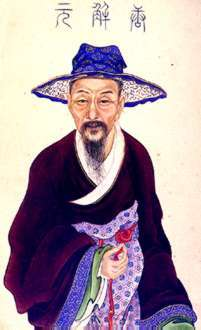 Tang Yin (Chinese: 唐寅; Pinyin: Táng Yín; Yale: Tong Yan; 1470–1524), better known by his courtesy name Tang Bohu (唐伯虎, though it is usually not the custom to address an individual by both surname and courtesy name), was a Chinese scholar, painter, calligrapher, and poet of the Ming Dynasty period whose life story has become a part of popular lore. Even though he was born during Ming Dynasty, Many of his paintings (especially paintings of people) were illustrated with elements from Pre-Tang to Song Dynasty (12th centuries).